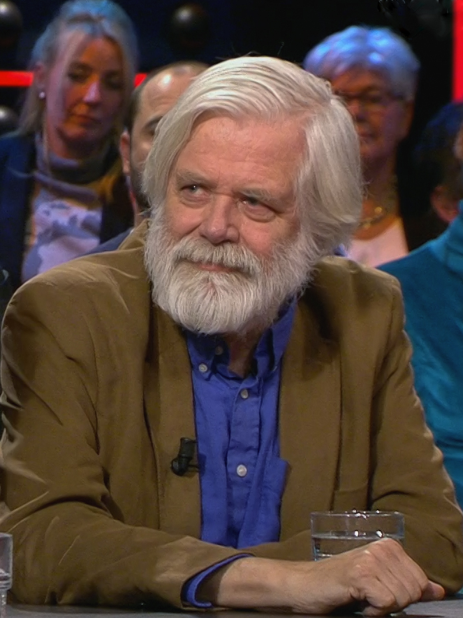 Hans Beerekamp (2018)